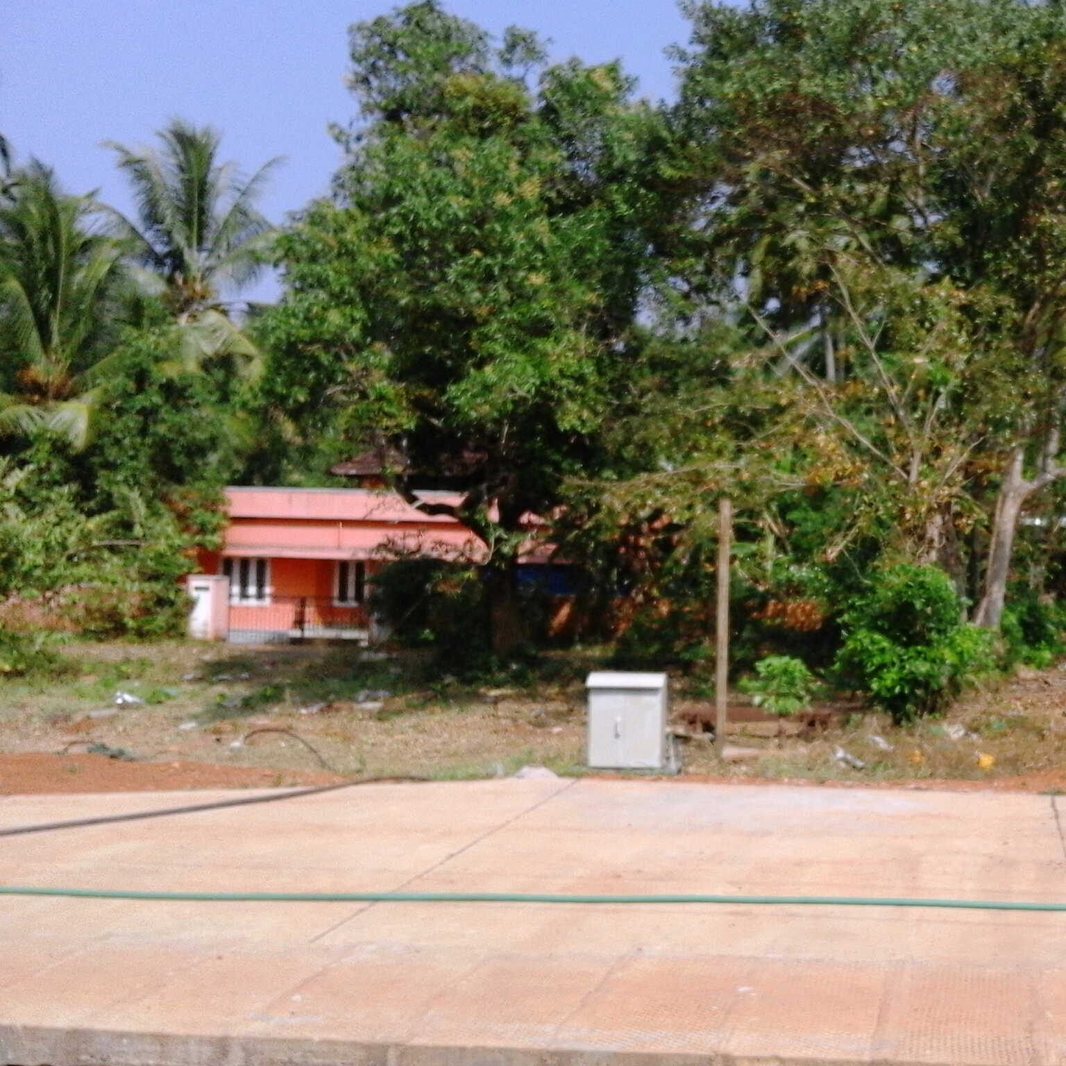 Wadakkanchery, Thrissur District, Kerala, India.